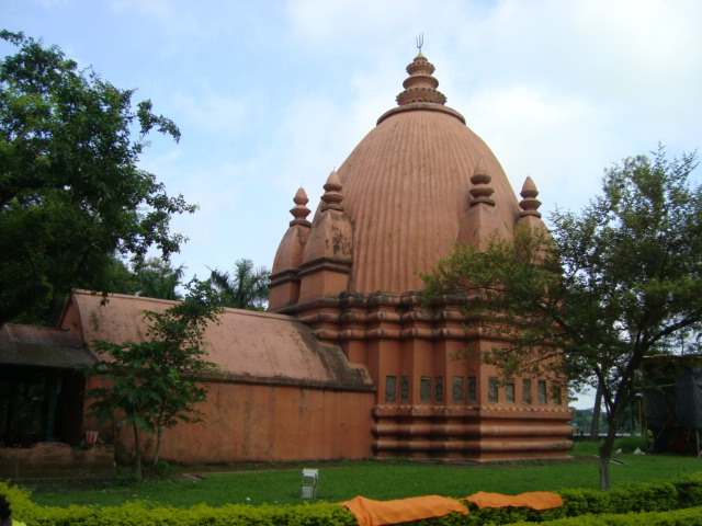 It is situated in the heart of Sivasagar Town. It is located very adjacent to Siva Dol and Vishnu Dol. This temple symbolizes the Hindu Goddess of 'Power'. It is 60 feet in height and 120 feet in diameter.